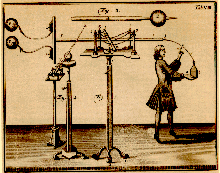 Musschenbroek (?) charging a Leyden jar